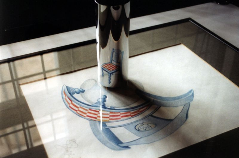 Anamorphosis of a chair, photographed in a museum in Dinkelsbühl